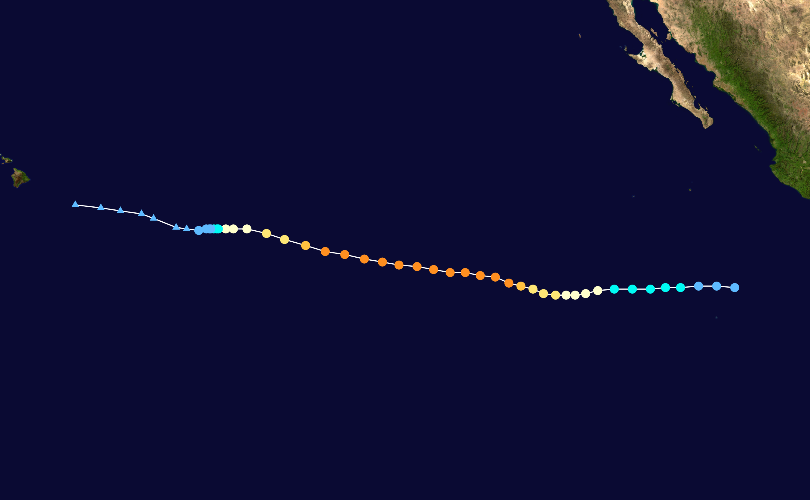 Track map of Hurricane Daniel of the 2006 Pacific hurricane season. The points show the location of the storm at 6-hour intervals. The colour represents the storm's maximum sustained wind speeds as classified in the Saffir–Simpson scale (see below), and the shape of the data points represent the nature of the storm, according to the legend below. Saffir–Simpson scale Tropical depression≤38 mph≤62 km/h Category 3111–129 mph178–208 km/h Tropical storm39–73 mph63–118 km/h Category 4130–156 mph209–251 km/h Category 174–95 mph119–153 km/h Category 5≥157 mph≥252 km/h Category 296–110 mph154–177 km/h Unknown Storm type Tropical cyclone Subtropical cyclone Extratropical cyclone / Remnant low / Tropical disturbance / Monsoon depression